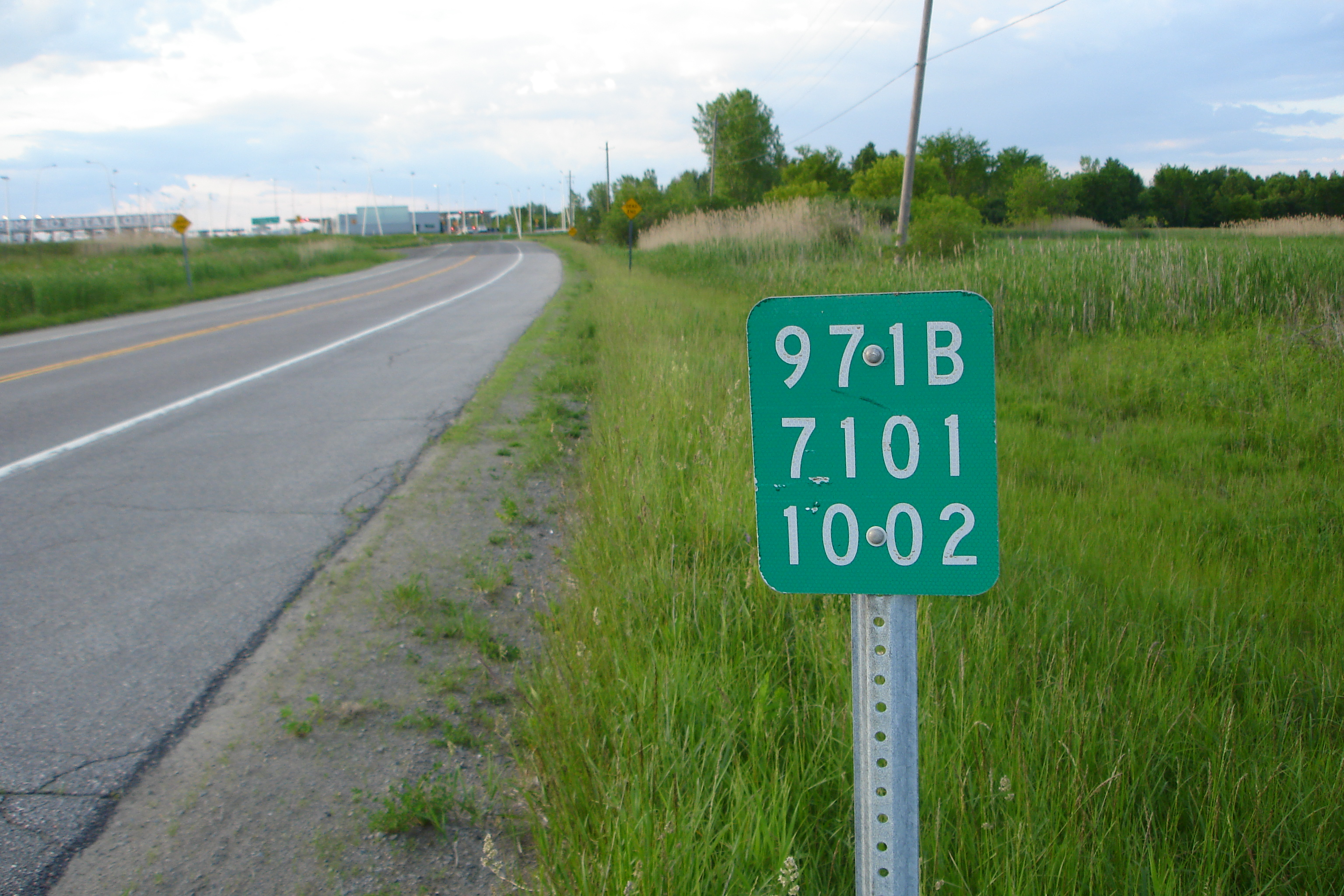 Last Northern US 9 Reference Marker, U.S.-Canadian border in background